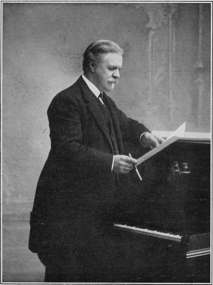 Photograph of the French composer Vincent d'Indy in 1913.